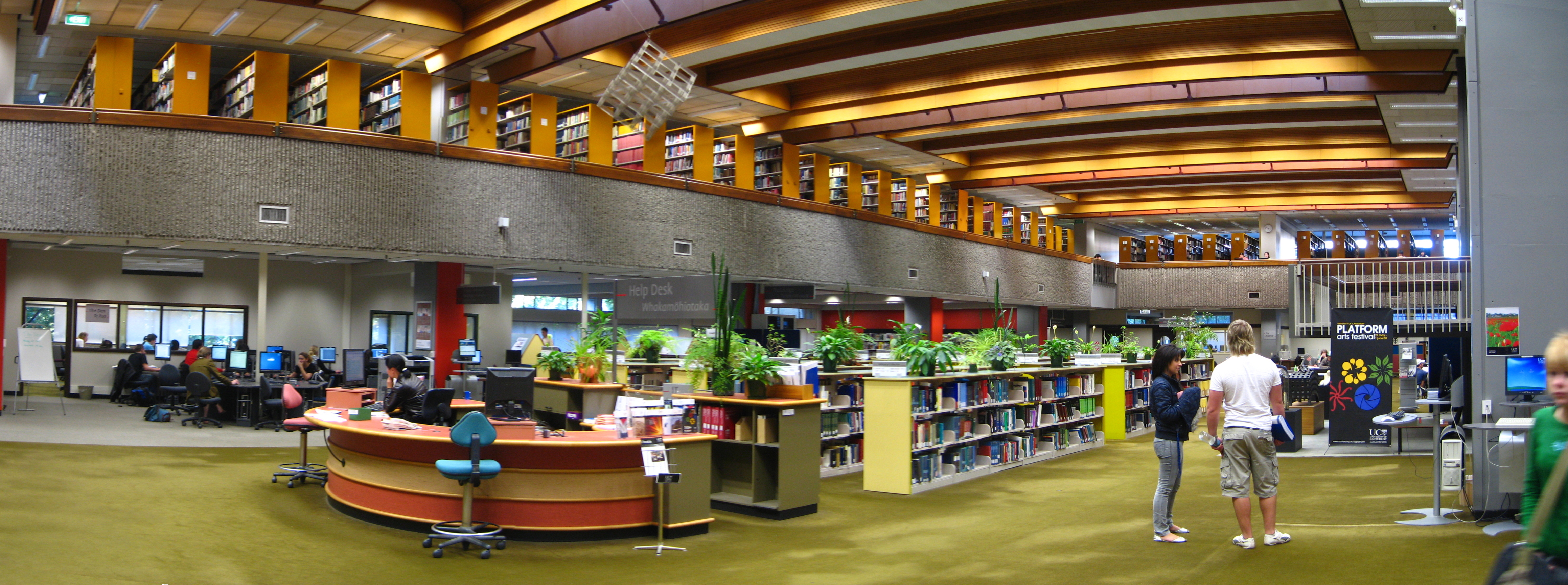 Level 2, Central Library, University of Canterbury, Christchurch.